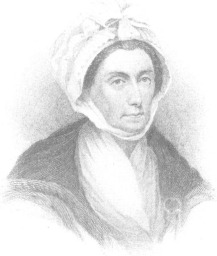 Selina Hastings, Countess of Huntingdon (1701-1797)